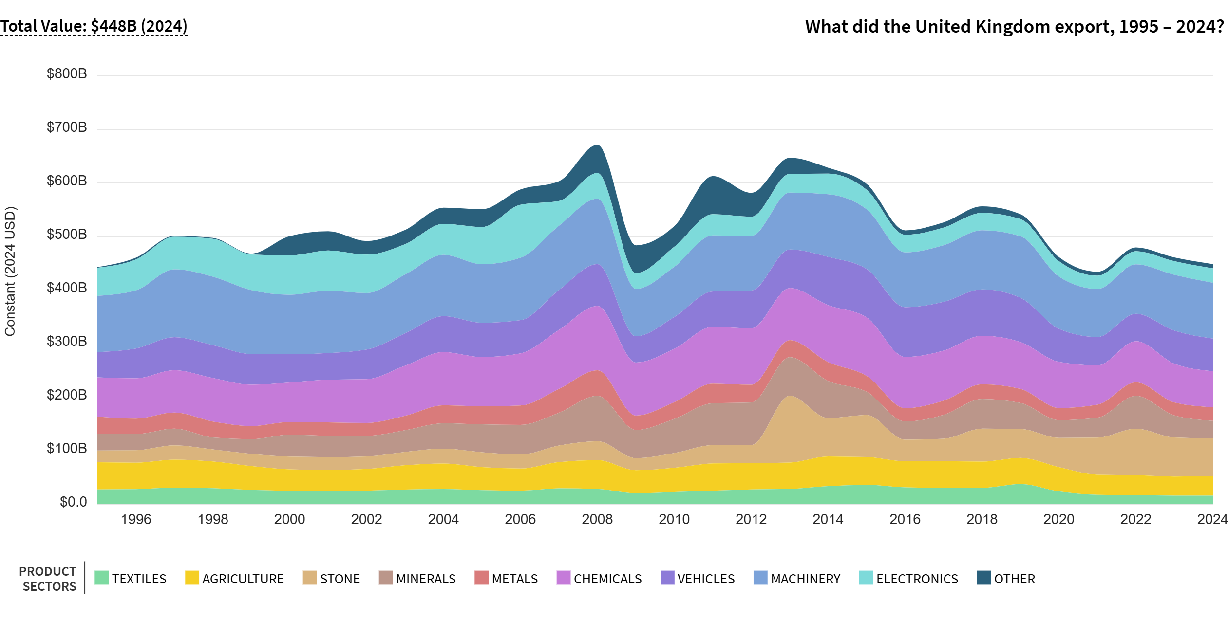 Chart showing the value of UK exports at constant prices from 1995 until 2016